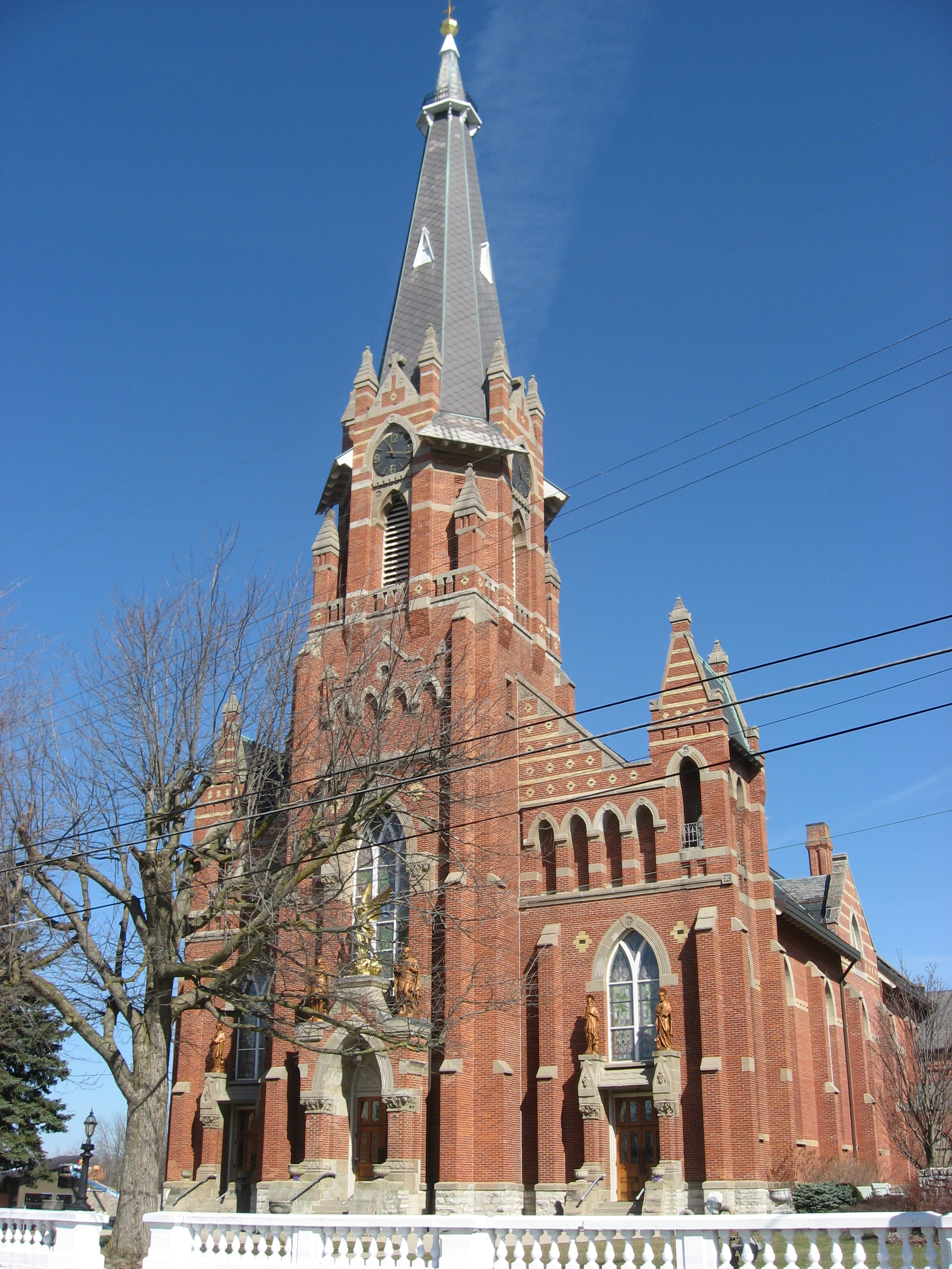 Front and eastern side of St. Michael's Catholic Church, located along State Route 705 east of its junction with State Route 66 in Fort Loramie, Ohio, United States. Note the carven stone fence in front of the church and the golden statues above the entrances. Built in 1881, it and three related buildings were added together to the National Register of Historic Places as a part of the Cross-Tipped Churches of Ohio Thematic Resources, under the title of "St. Michael Catholic Church Complex."